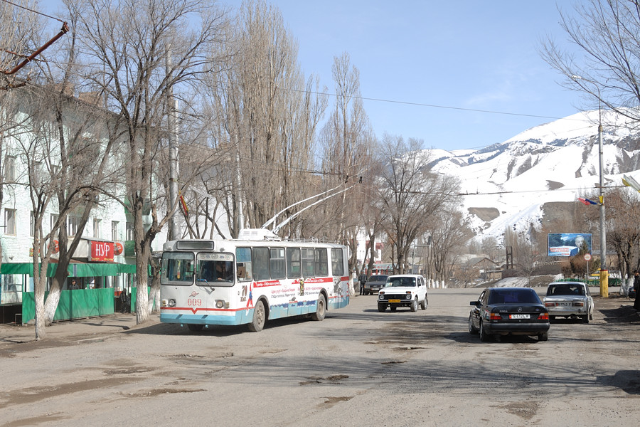 ZiU-9 009 in Naryn (Moskowski)